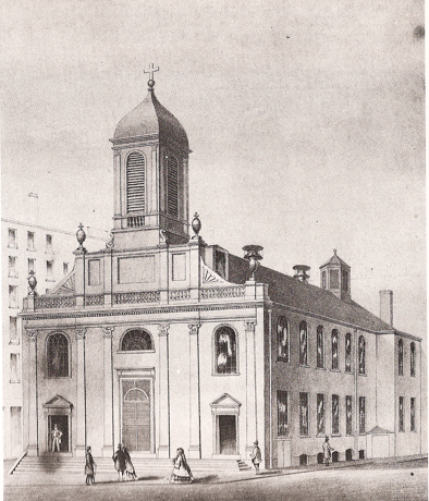 1859 lithograph of Holy Cross Church, Boston